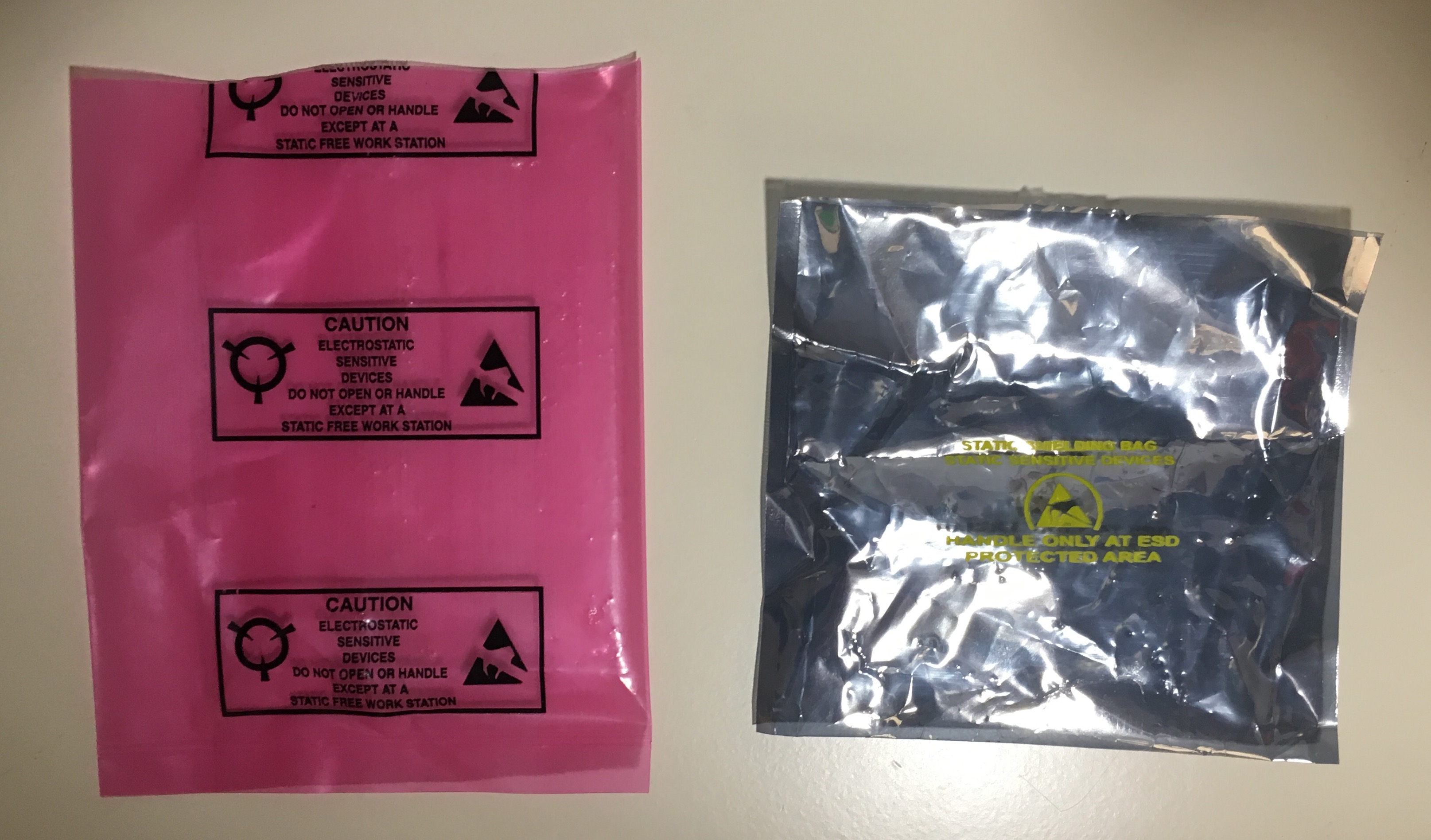 Two types of antistatic bags, a dissipative antistatic bag (left), and a conductive antistatic bag (right)